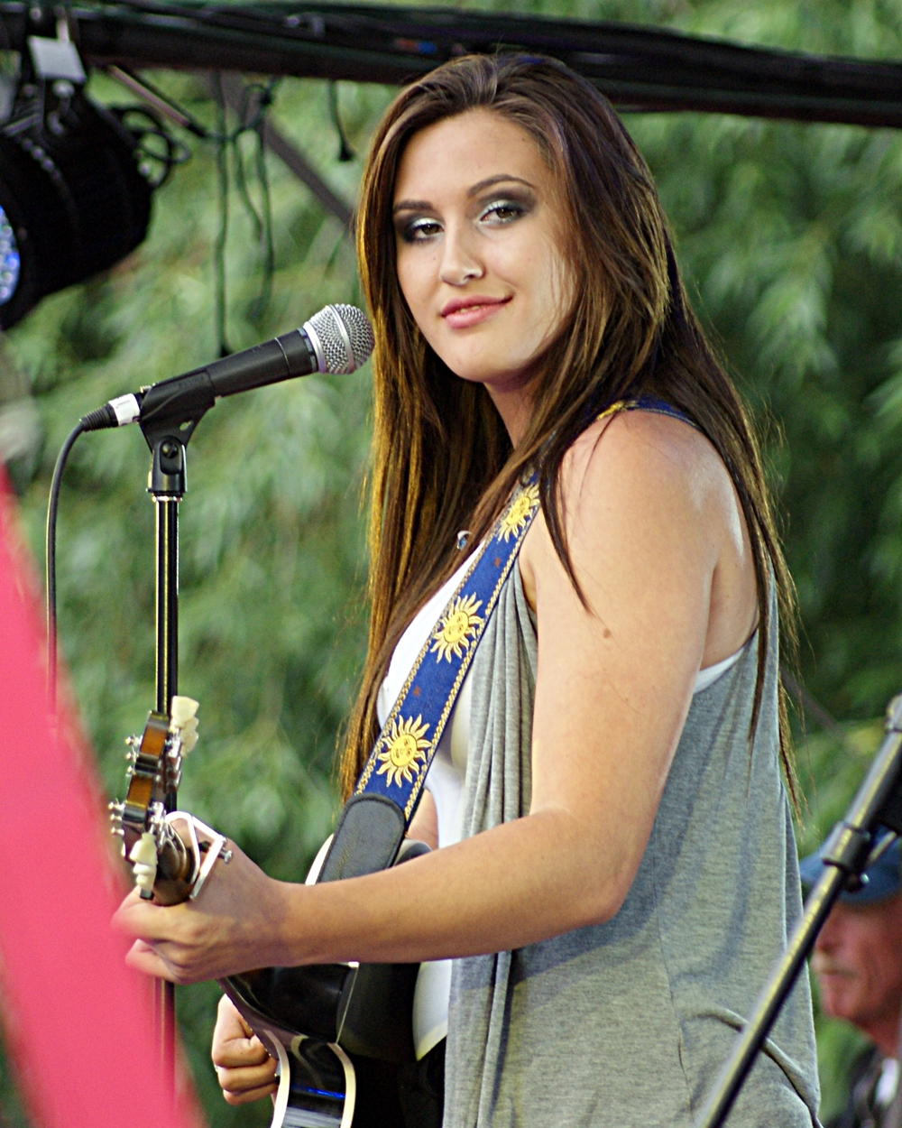 Alyssa Reid, Canadian singer and songwriter. Photo taken on July 11, 2011 during a live performance at the Calgary Stampede on the Coca-Cola Stage in Calgary, Alberta, Canada.